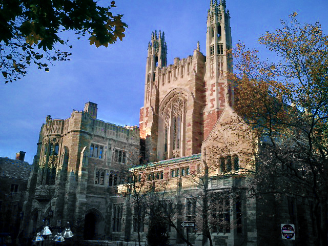 Yale Law School is housed in the Sterling Law Building, erected in 1931. Modeled after the English Inns of Court, the law building is located at the heart of Yale's campus and contains a law library, a dining hall, and a courtyard.